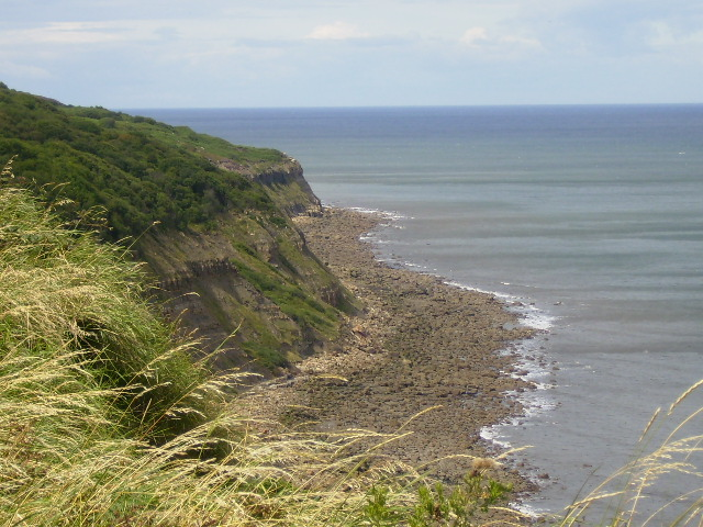 OV00 square distant view from Petard Point. Image captured with telephoto lens.